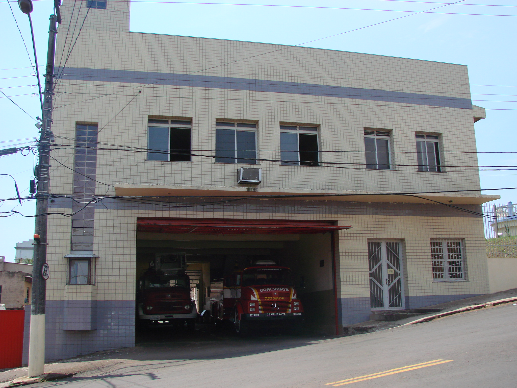 Fire station in the state of Rio Grande do Sul - Brazil.